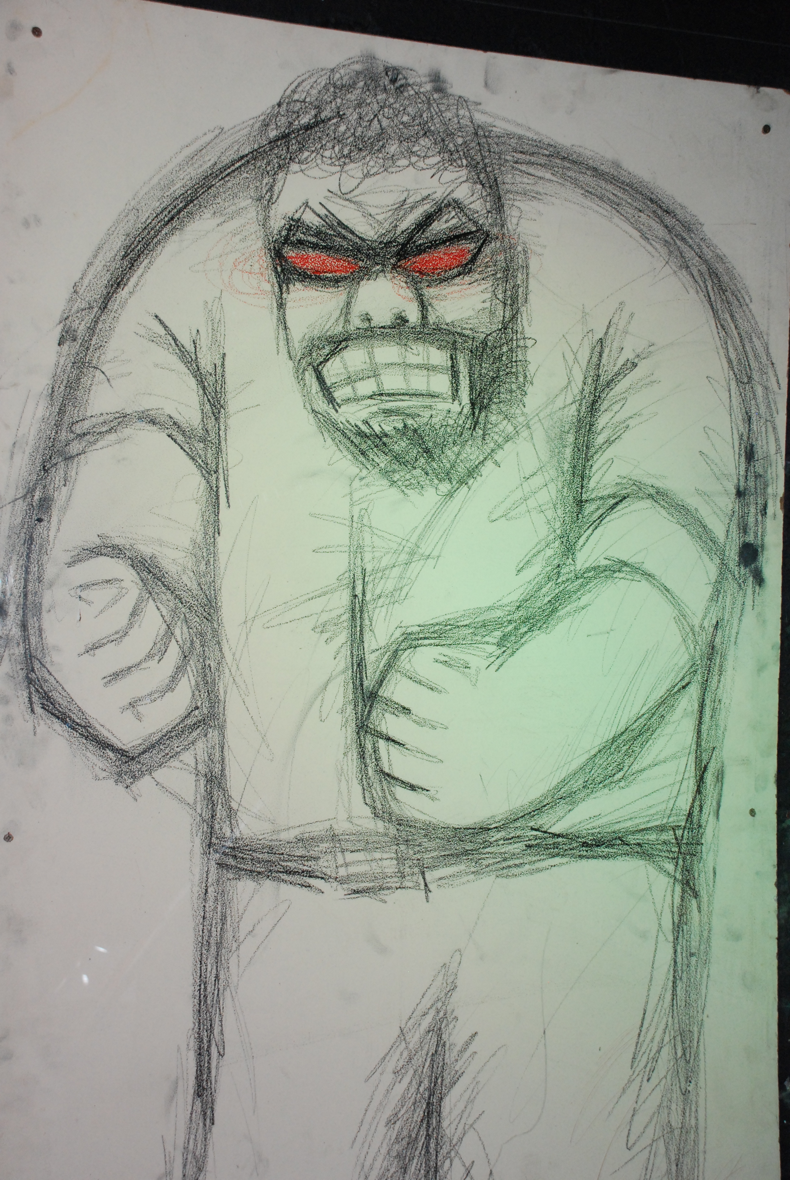 The Dr. Who exhibition at the Kelvingrove Art Gallery is well worth a visit. Of particular interest to me were the numerous examples of pre vis material on display. Lots of examples of storyboards and research materials for sets costumes and of course monsters. The show is great for kids but infants might find it a bit too scary. Particular highlights were the Cybermen and Dalek exhibits which were really interactive and very well done. Good to see these up close. Lots of ideas for halloween costumes from the monsters! Recommended, finishes on 4 Jan 2010. Doctor Who Experience